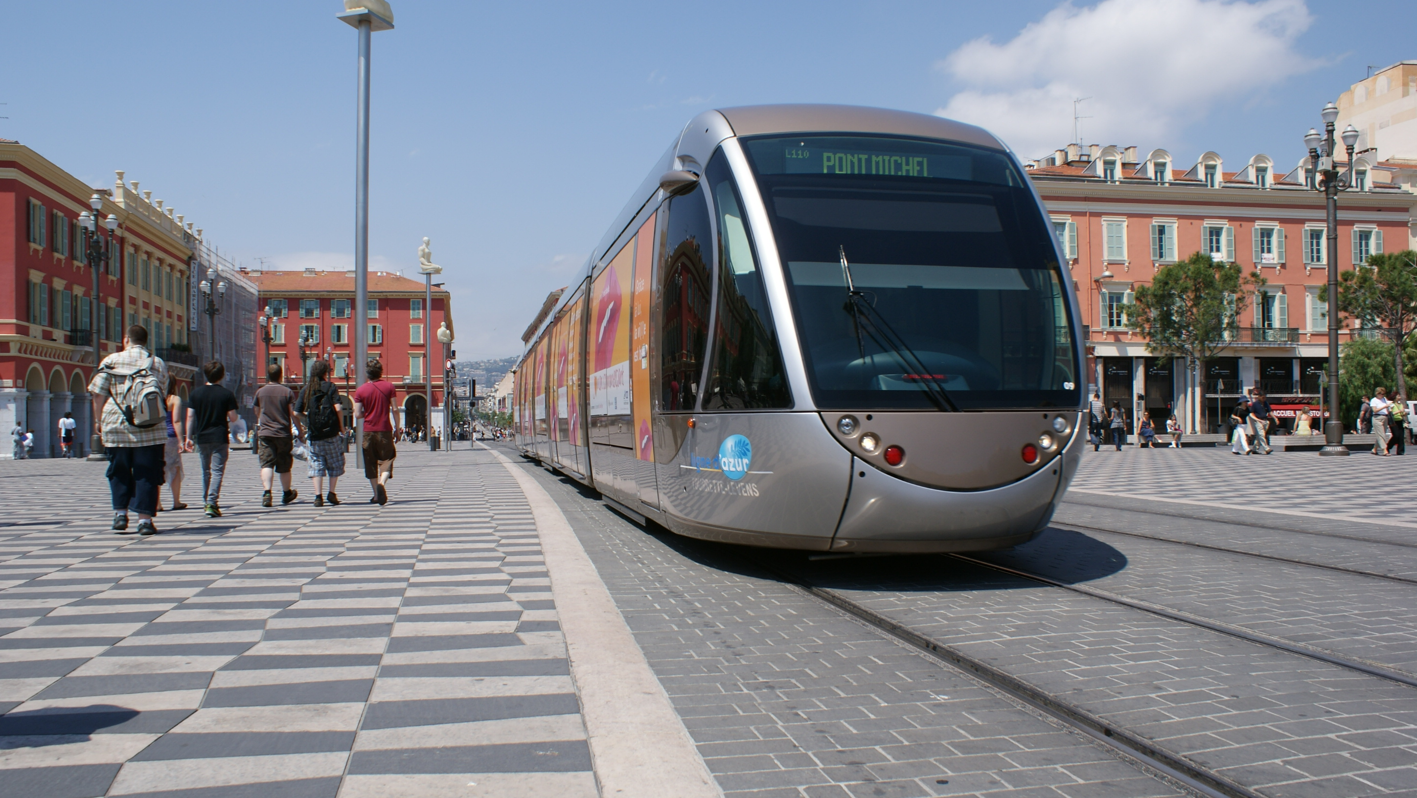 Nice tram on place Masséna